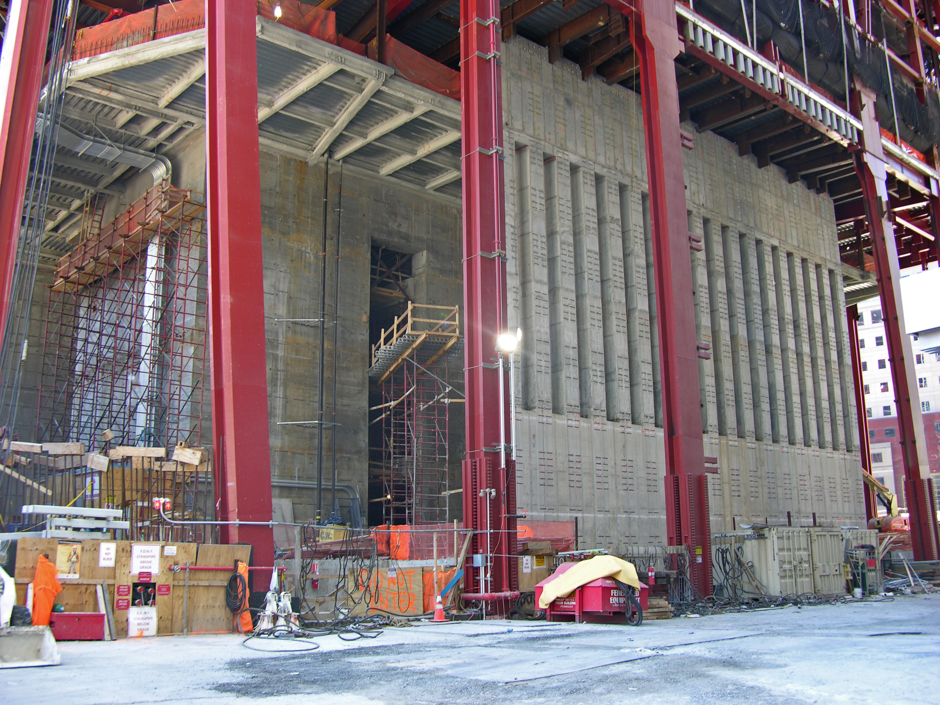 One World Trade Center - ground floor (under construction)